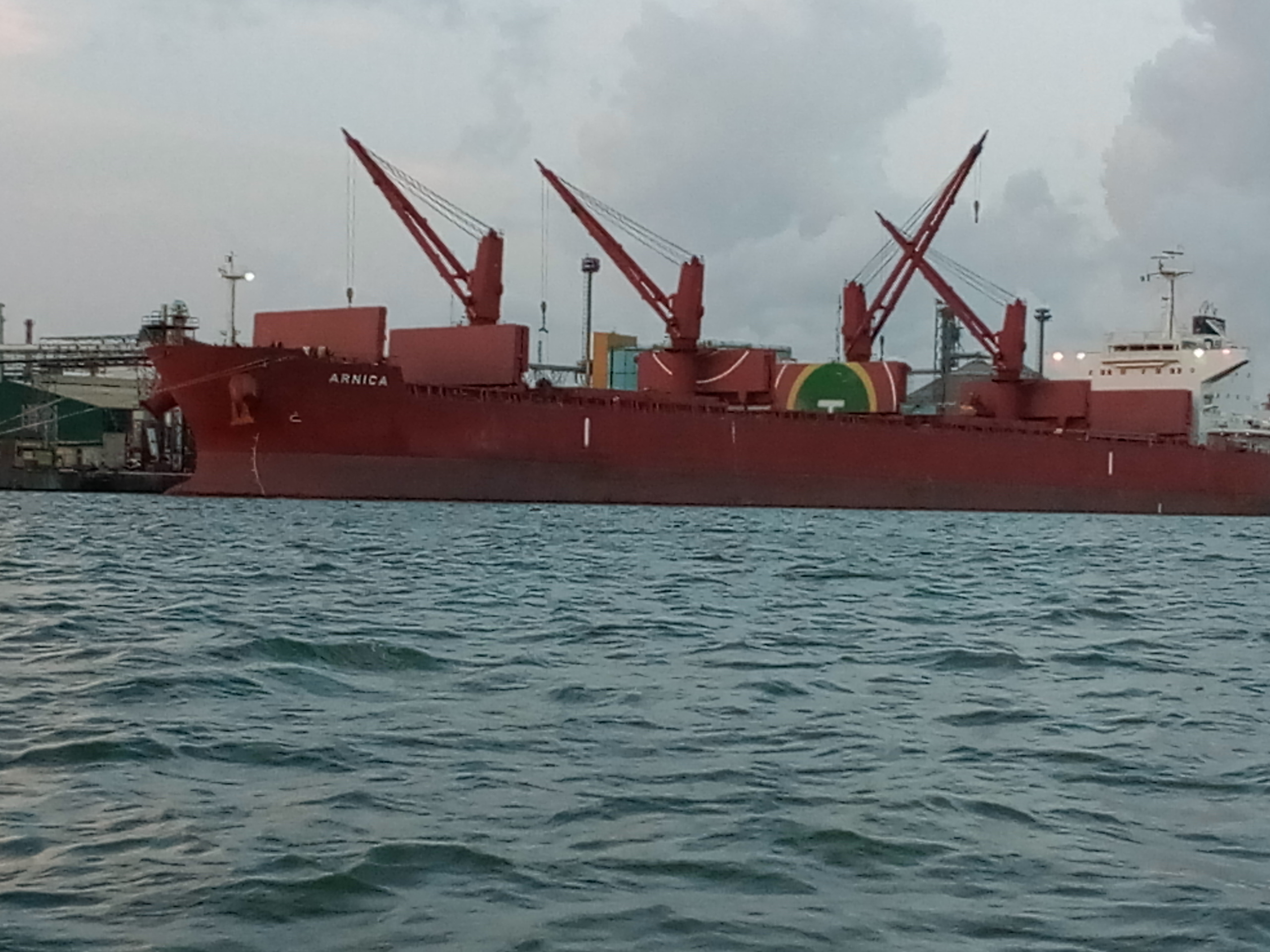 This is an image of "African people at work" from Nigeria